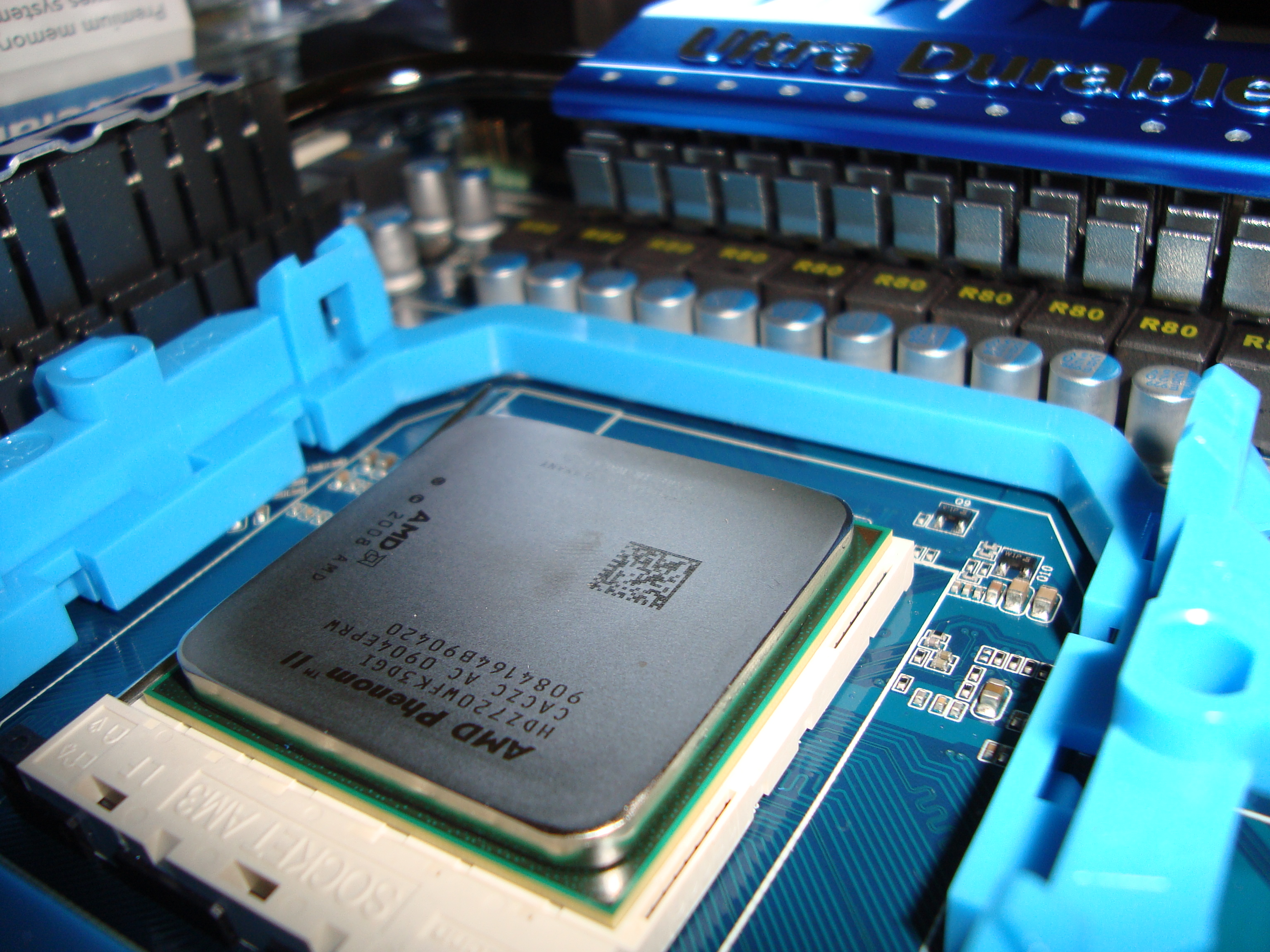 An AM3 socket with an inserted AMD Phenom II X3 720 Black Edition central processing unit (CPU)